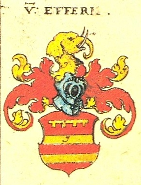 Wappen der rheinischen Adelsfamilie von Efferen